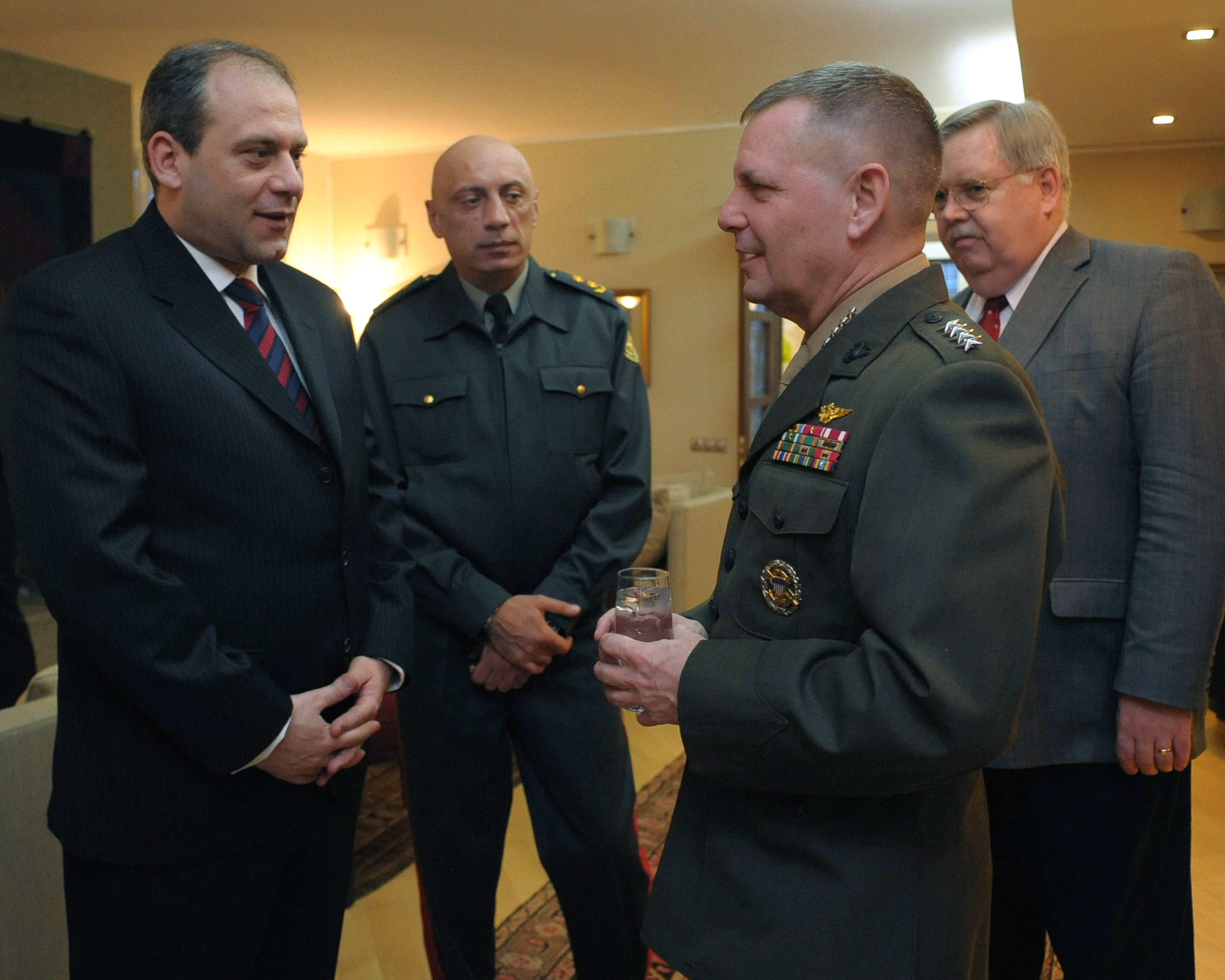 From left, Georgian Minister of Defense David Sikharulidze, Georgian Chief of Defense Maj. Gen. Devi Tchonkotadze and U.S. Ambassador to Georgia John F. Tefft listen to U.S. Marine Gen. James E. Cartwright, vice chairman of the Joint Chiefs of Staff, at a reception in Tbilisi, Georgia.